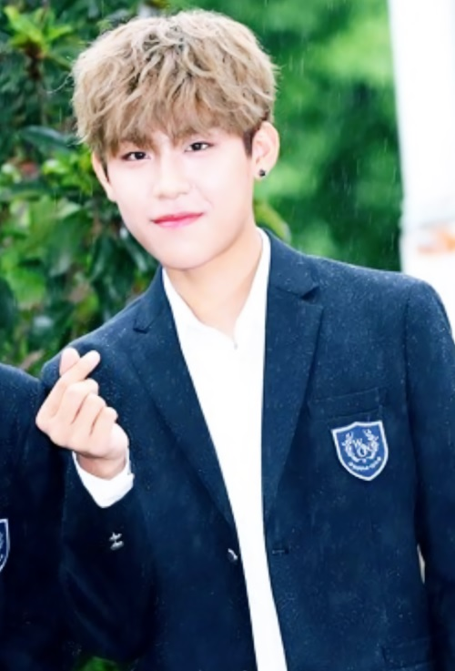 해피투게더 출근